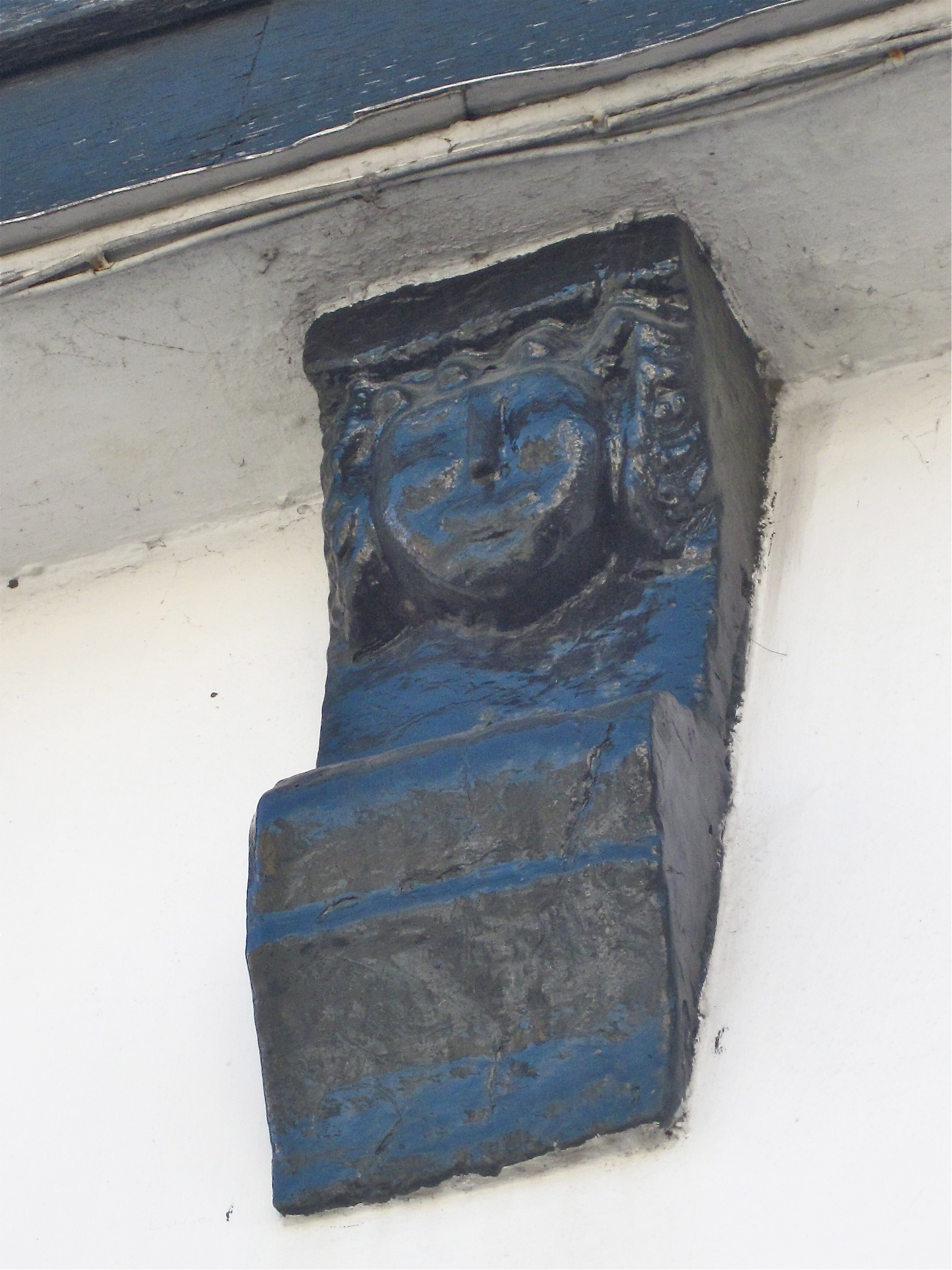 Old Swan, Rhayader. Carved jetty bracket under eaves